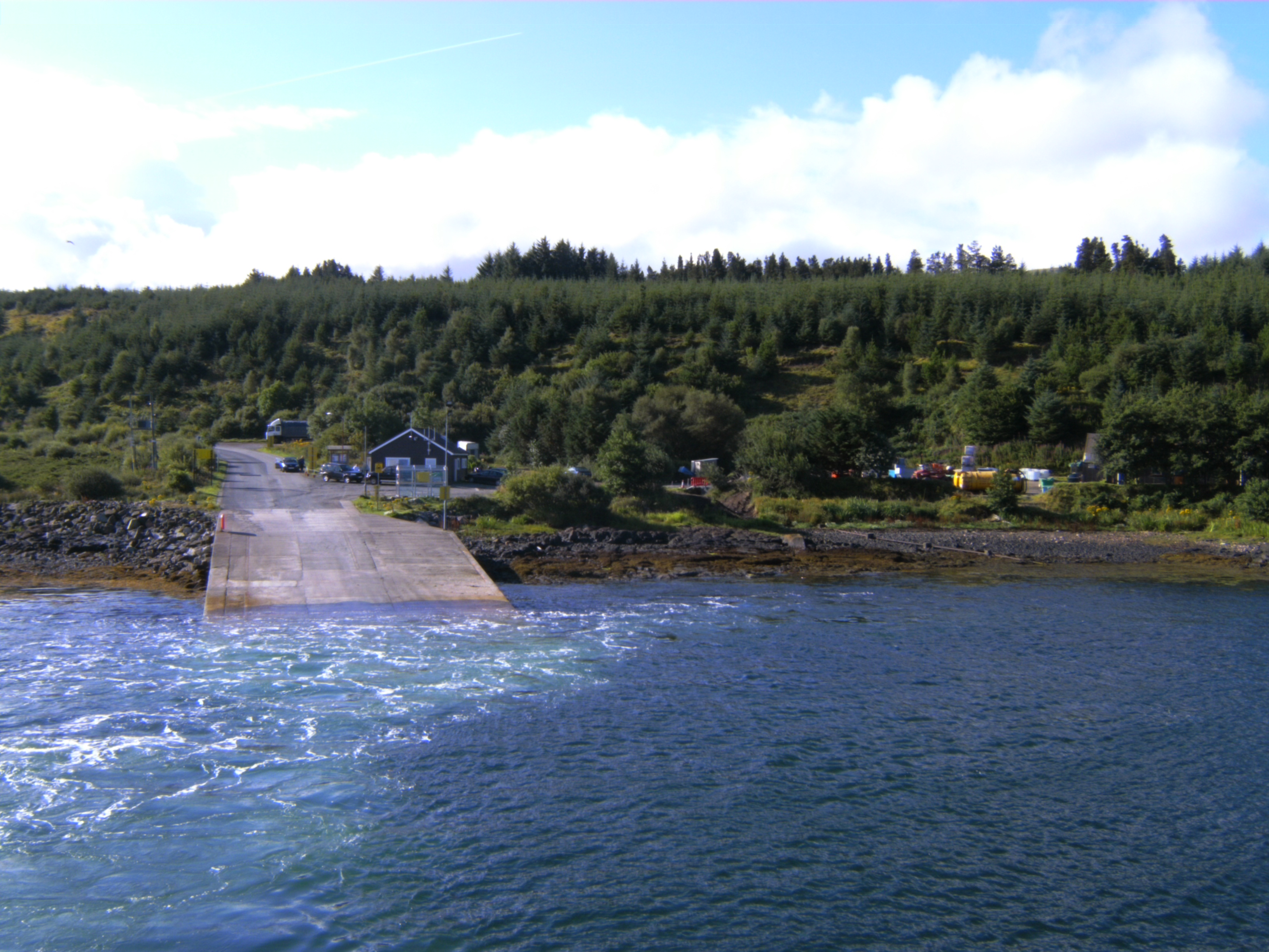 Fishnish seen from the ferry to Lochaline